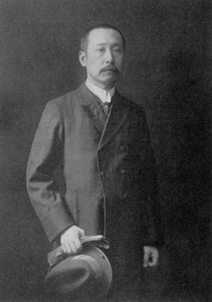 Viscount Akamaro Tanaka.